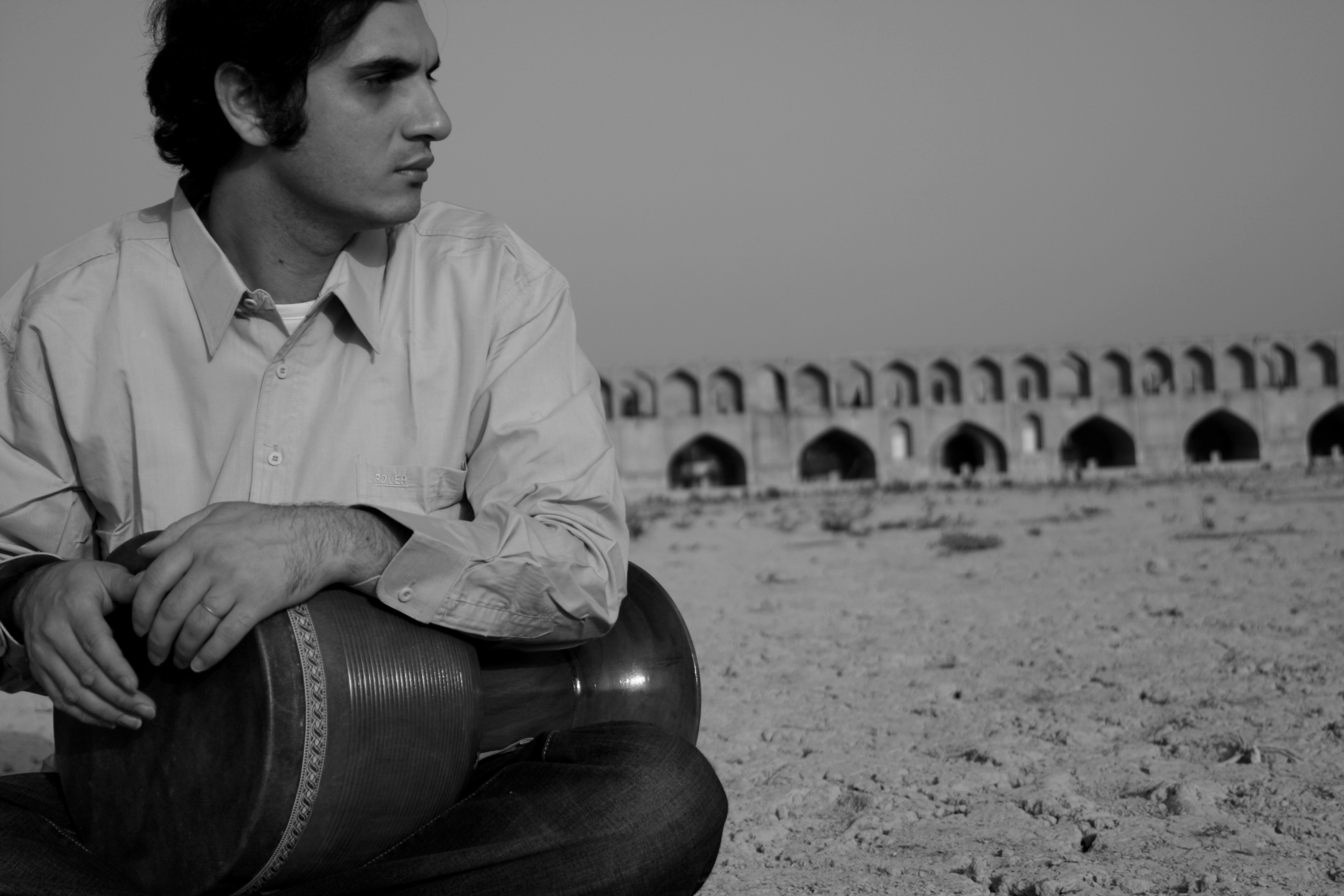 Mohammad Reza Mortazavi